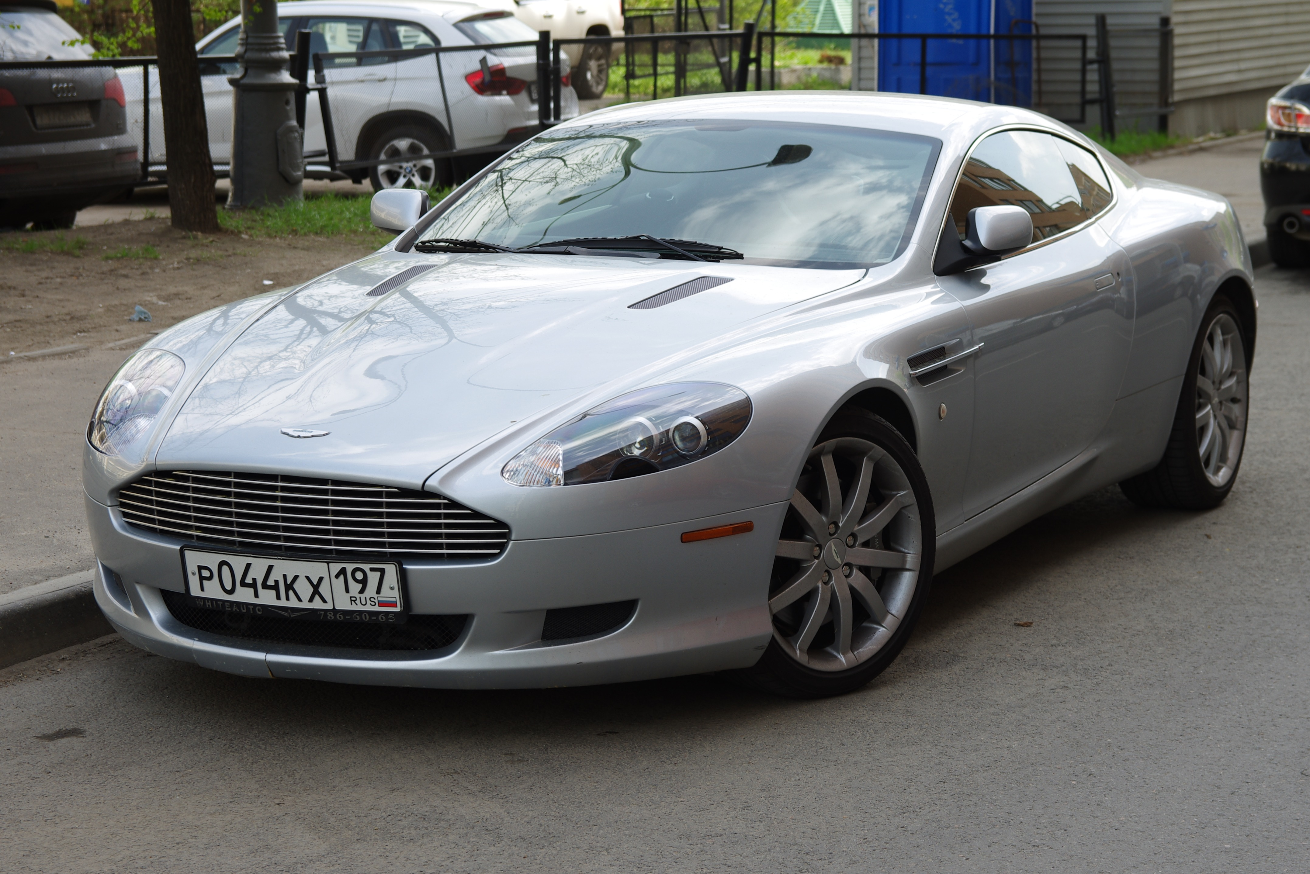 Aston Martin DB9 coupe in Moscow, fron side view